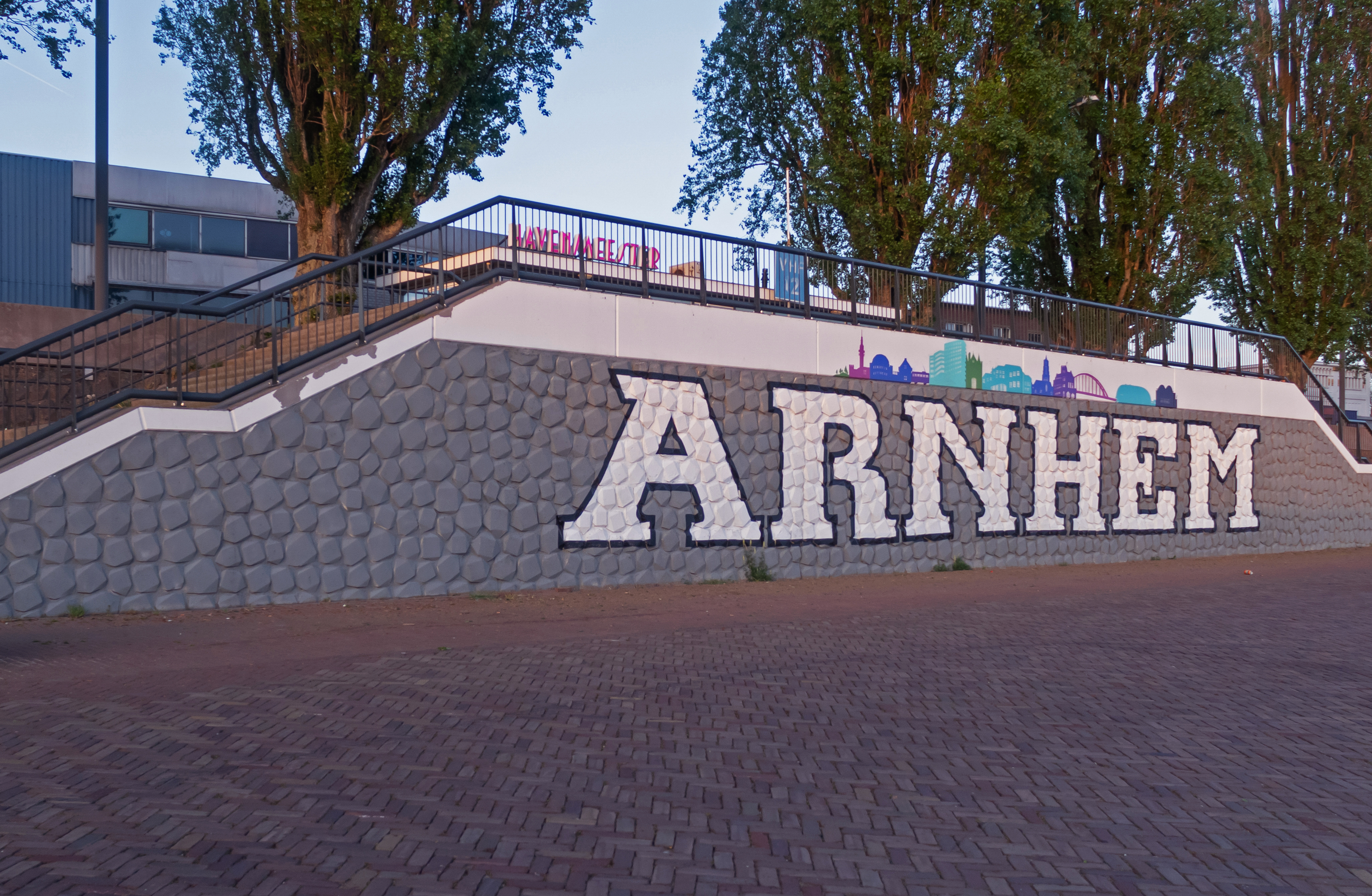 Arnhem, sign: port Arnhem